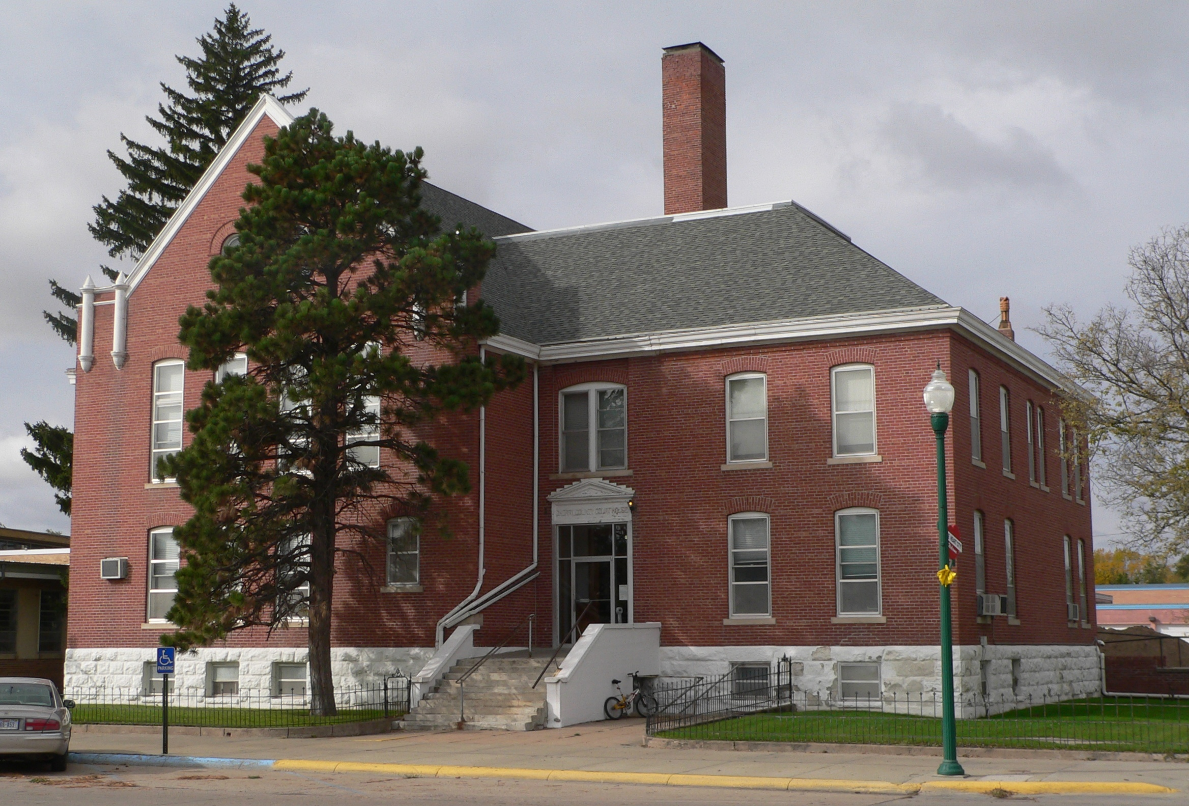 Cherry County Courthouse in Valentine, Nebraska; seen from the northeast. The Romanesque Revival building was constructed in 1901. It is listed in the National Register of Historic Places.